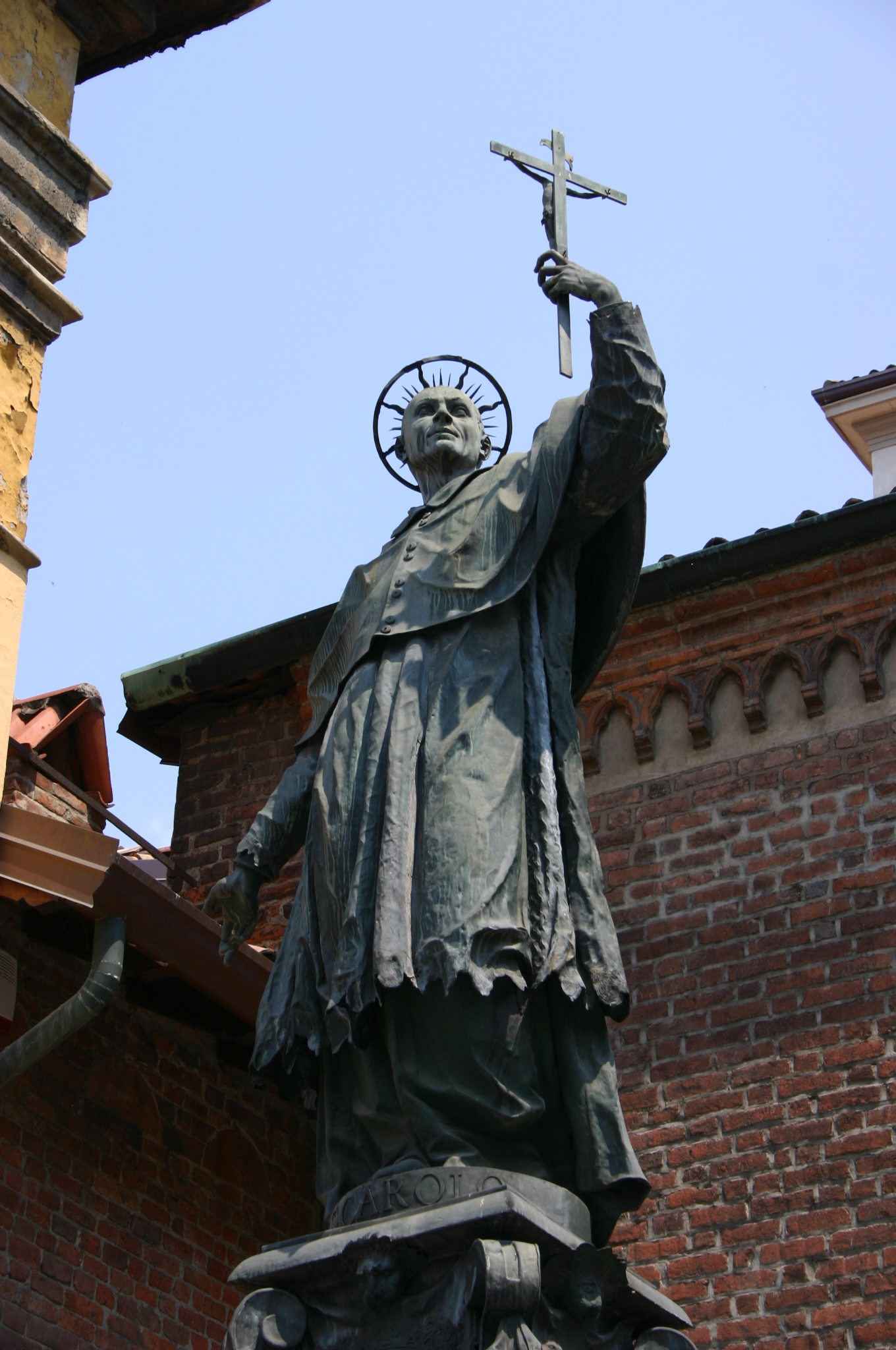 Dionigi Bussola, Copper statue of saint Charles Borromeo, in Piazza Borromeo in Milan, Italy. The statue originally stood in Piazzale Cordusio, but the House of Borromeo was forced in 1786 to move it here "within ten days" for "obstruction to circulation" after the Austrian governor's carriage had knocked it. Picture by Giovanni Dall'Orto, May 18 2007.